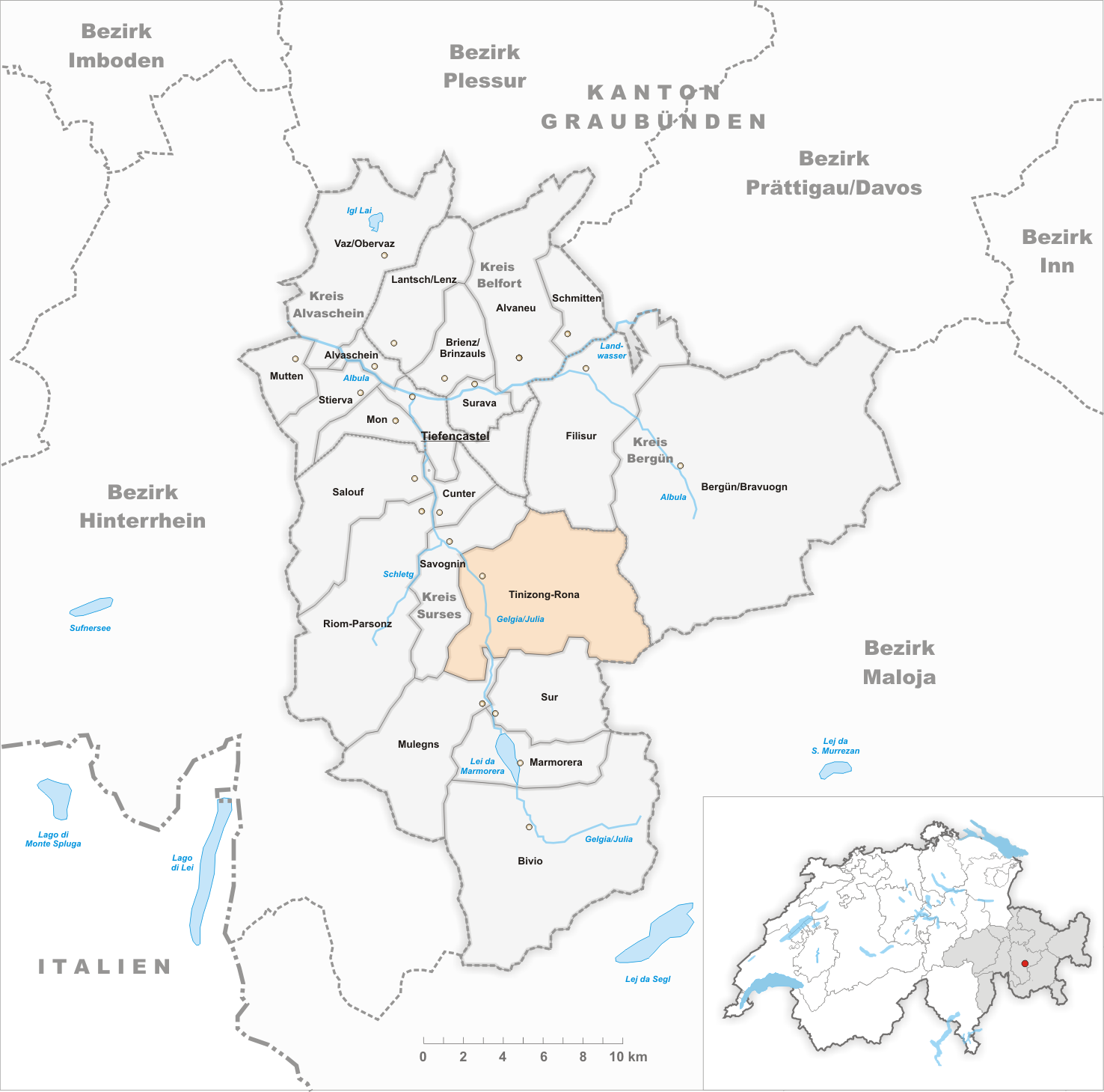 Municipality Tinizong-Rona